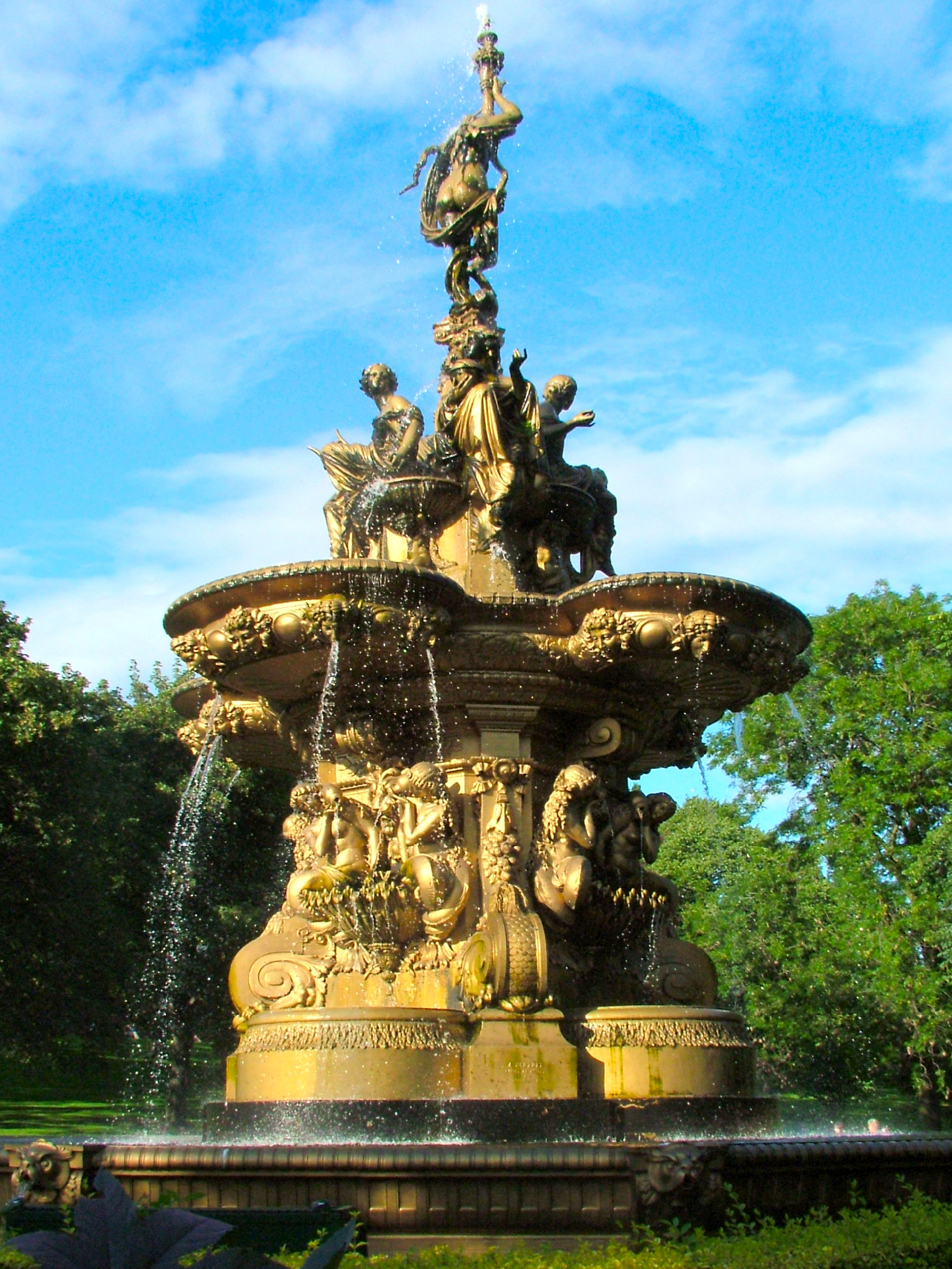 The Ross Fountain in Edinburgh.